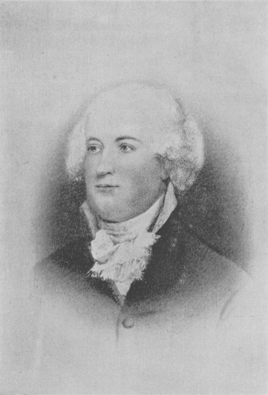 “In 1789–90 there is reason to believe he made a visit to London ... It must have been about this time that his portrait was painted by the young and rising artist, Thomas Lawrence, afterwards celebrated as the President of the Royal Academy. The photograph of this portrait which accompanies this sketch hardly does justice to the painting, which is an exquisite specimen of color. Col. Frank M. Etting, in a letter to the author of this memoir, dated March 15, 1877, referring to the portrait of George Meade which had been loaned to the Historical Department of the International Exhibition of 1876, writes "The head of George Meade has been universally admired by the best judges - if premiums were awarded, it would have secured the very first as a work of art though Kneller, Lely, Stuart and West were all fairly represented. " According to the tradition received by the author this portrait was painted for John Barclay ... and subsequently came into the possession of Richard Worsam, son of George, from whom it descended to the present owner, the author of this memoir.” R.W. Meade III, "George Meade", p. 214